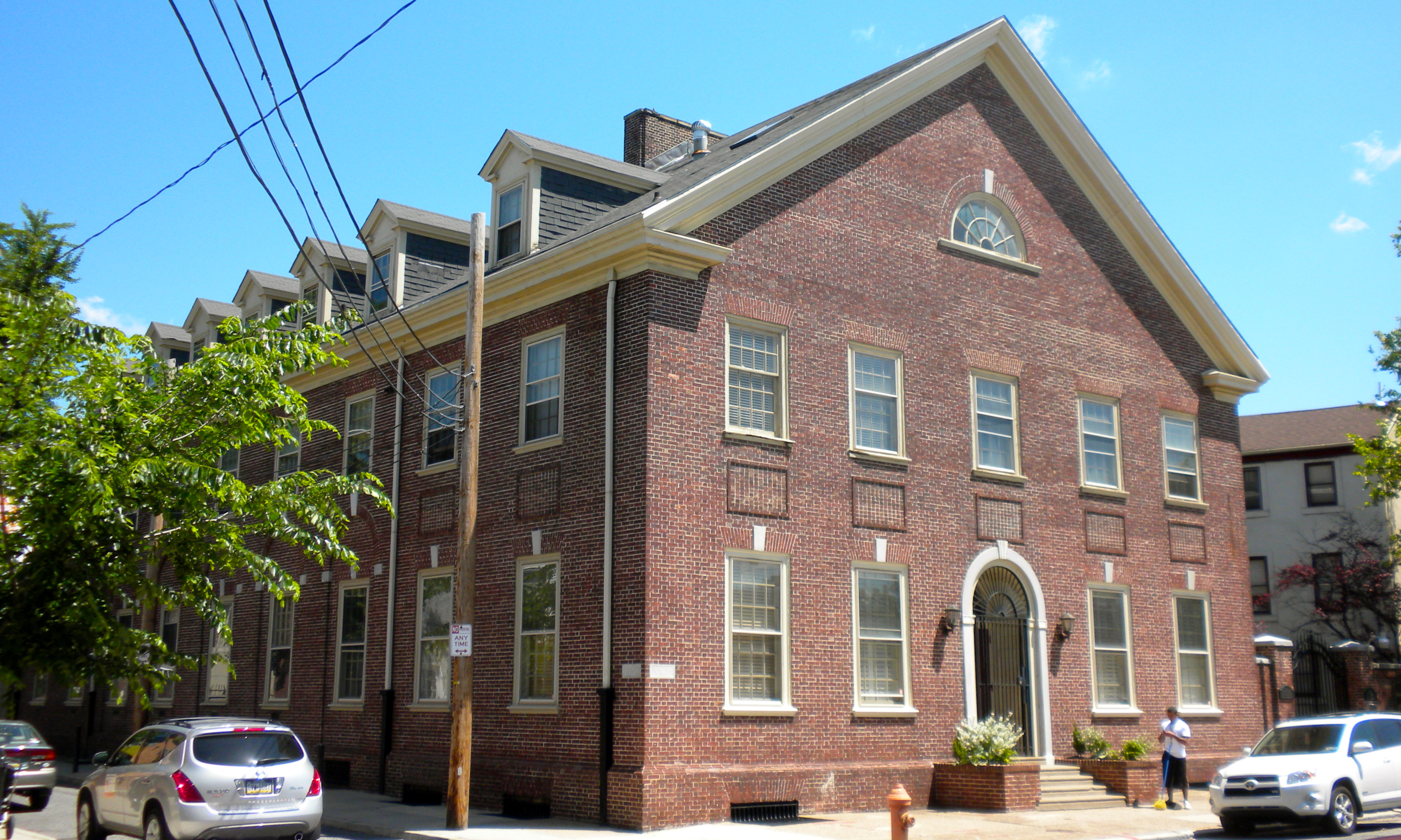 Grays Road Recreation Center on the NRHP since April 21, 1988. At 2501 Christian Street in Grays Ferry neighborhood of south Philadelphia, PA